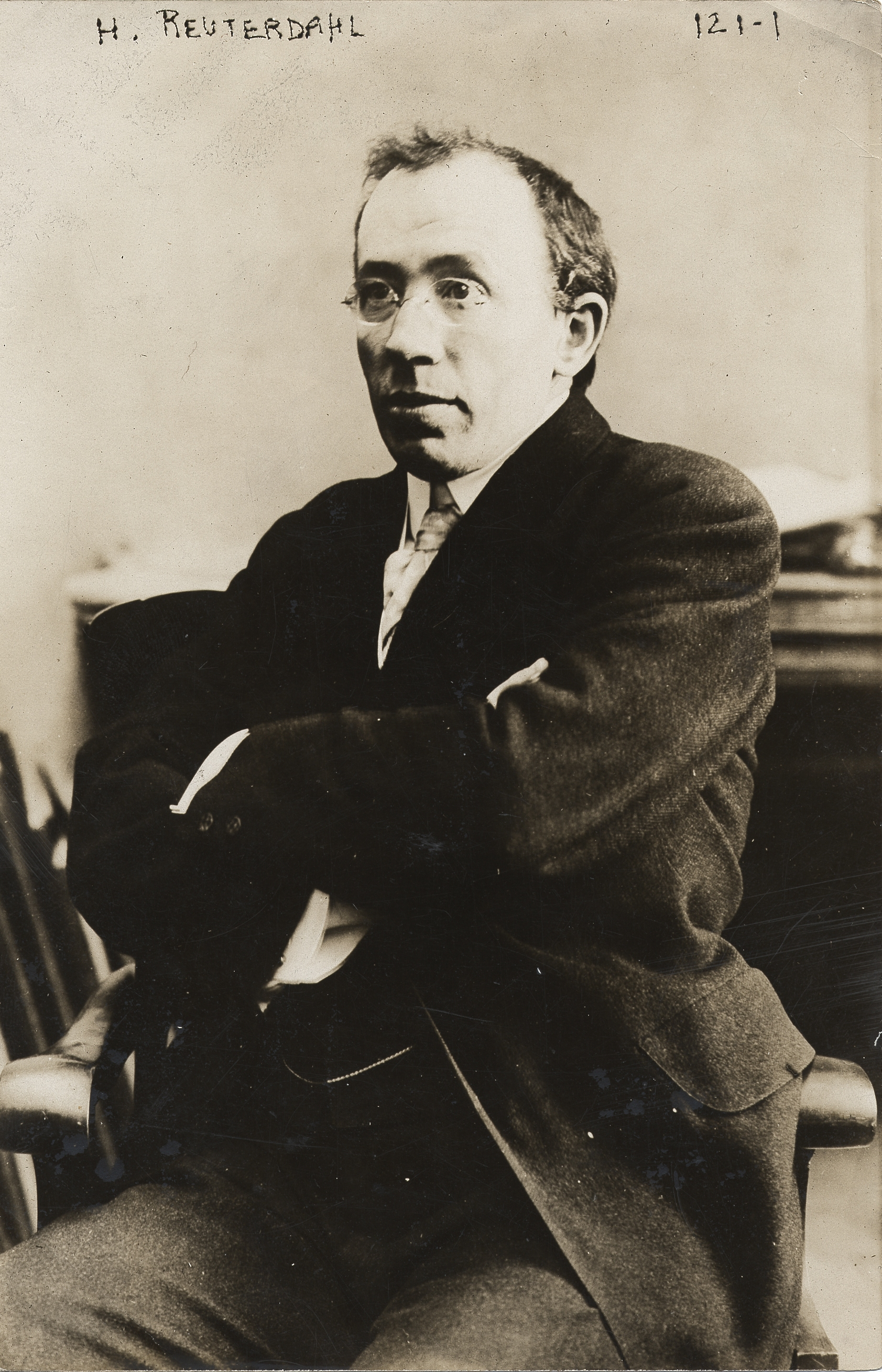 Henry Reuterdahl, American naval artist